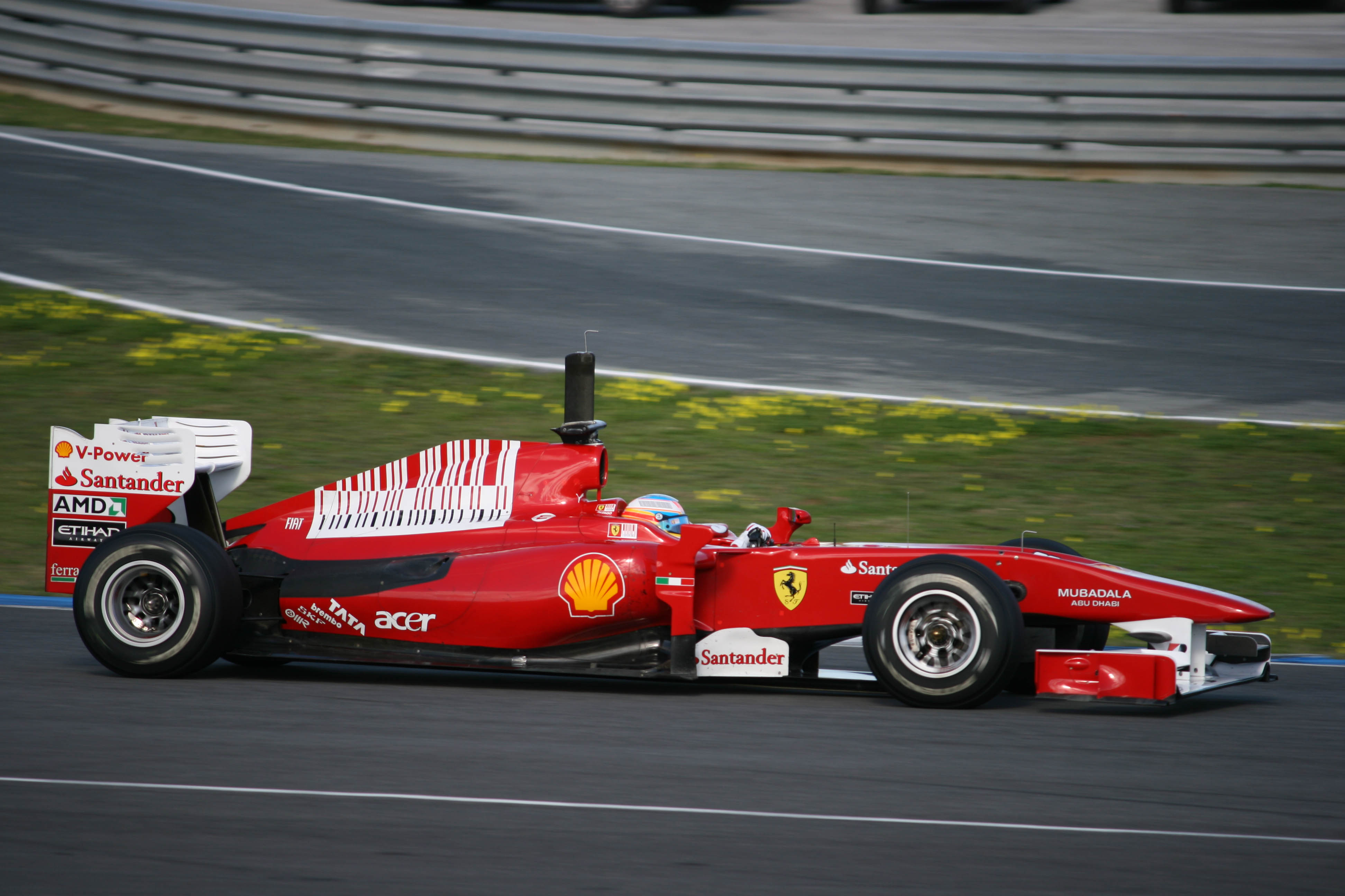 Fernando Alonso testing for Scuderia Ferrari at Jerez, 11/02/2010.